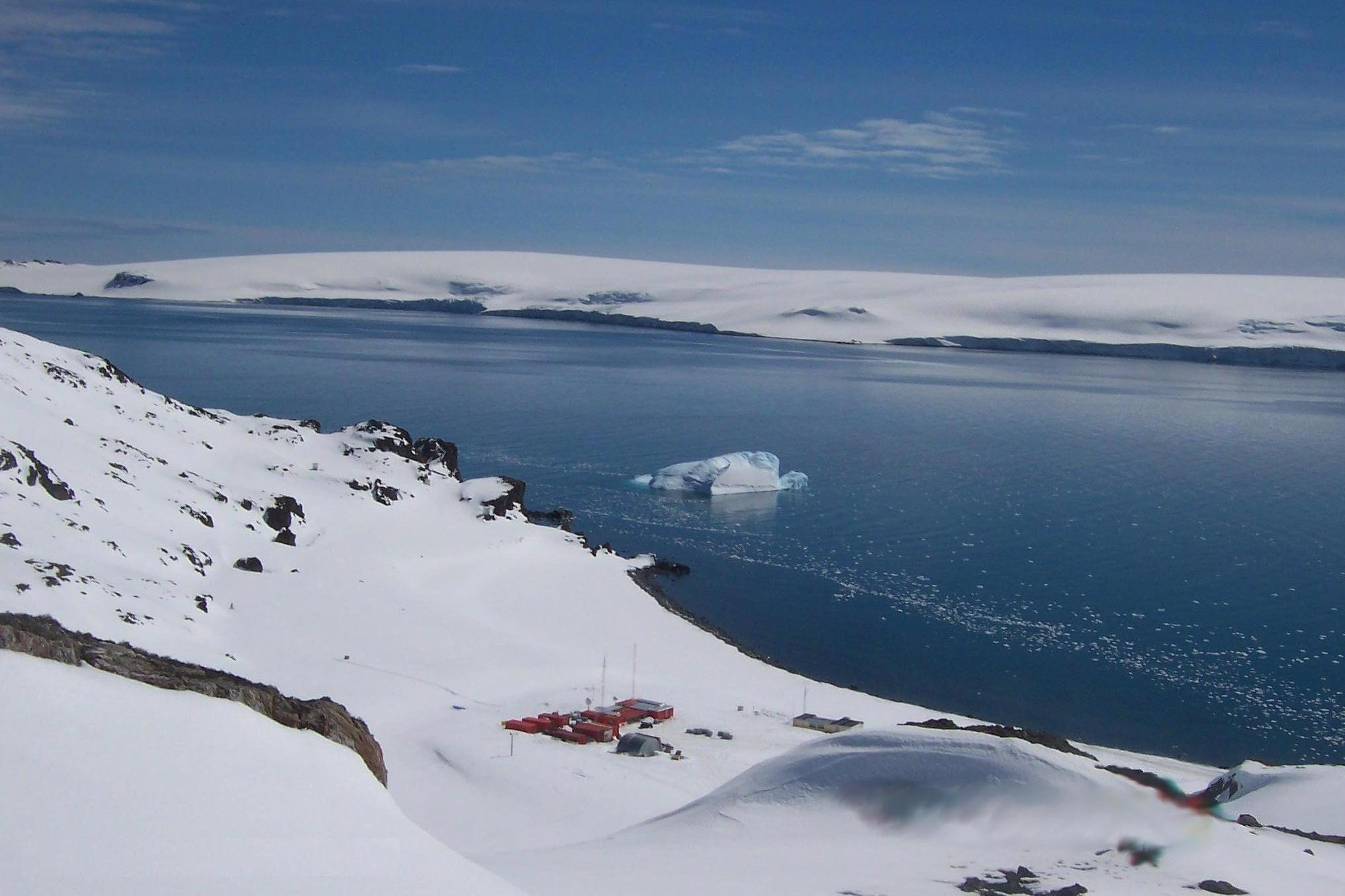 Juan Carlos I Antarctic Station, a seasonal scientific station operated by Spain on the Hurd Peninsula, on Livingston Island in the South Shetland Islands, Antarctica. In the background are South Bay and Ereby Point.